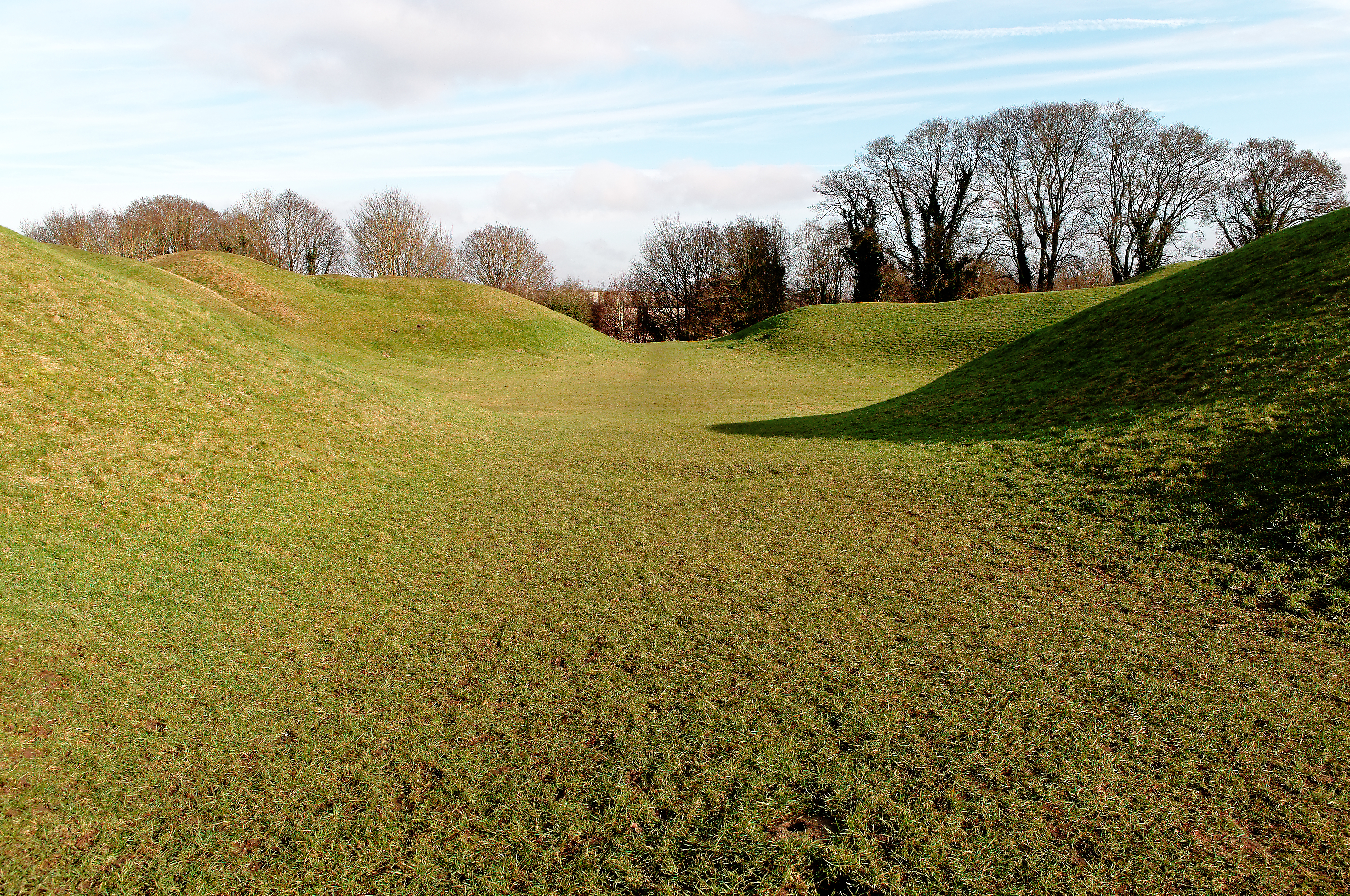 Roman amphitheatre in Cirencester, Gloucestershire, England.